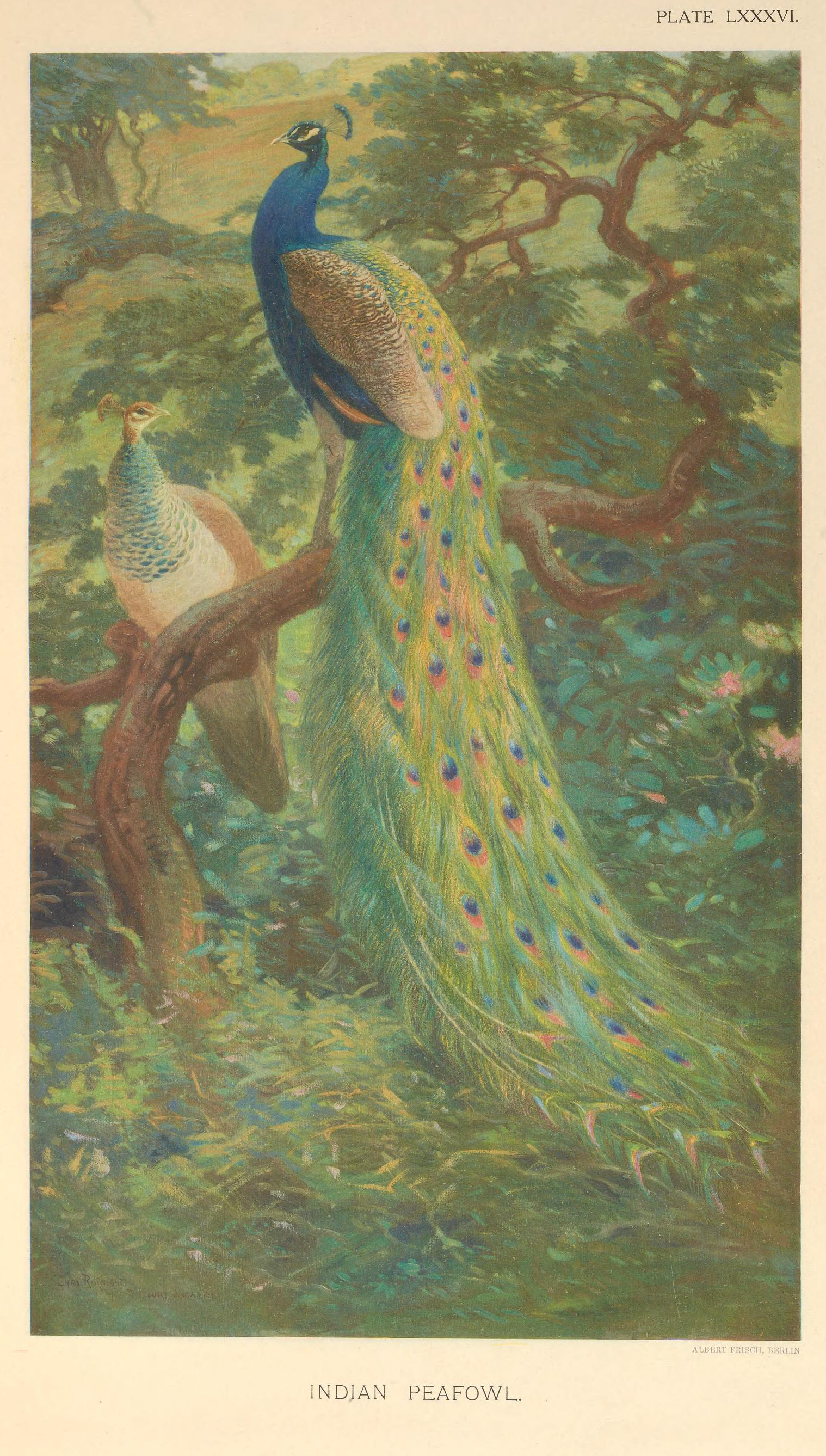 Indian Peafowl (Pavo cristatus)